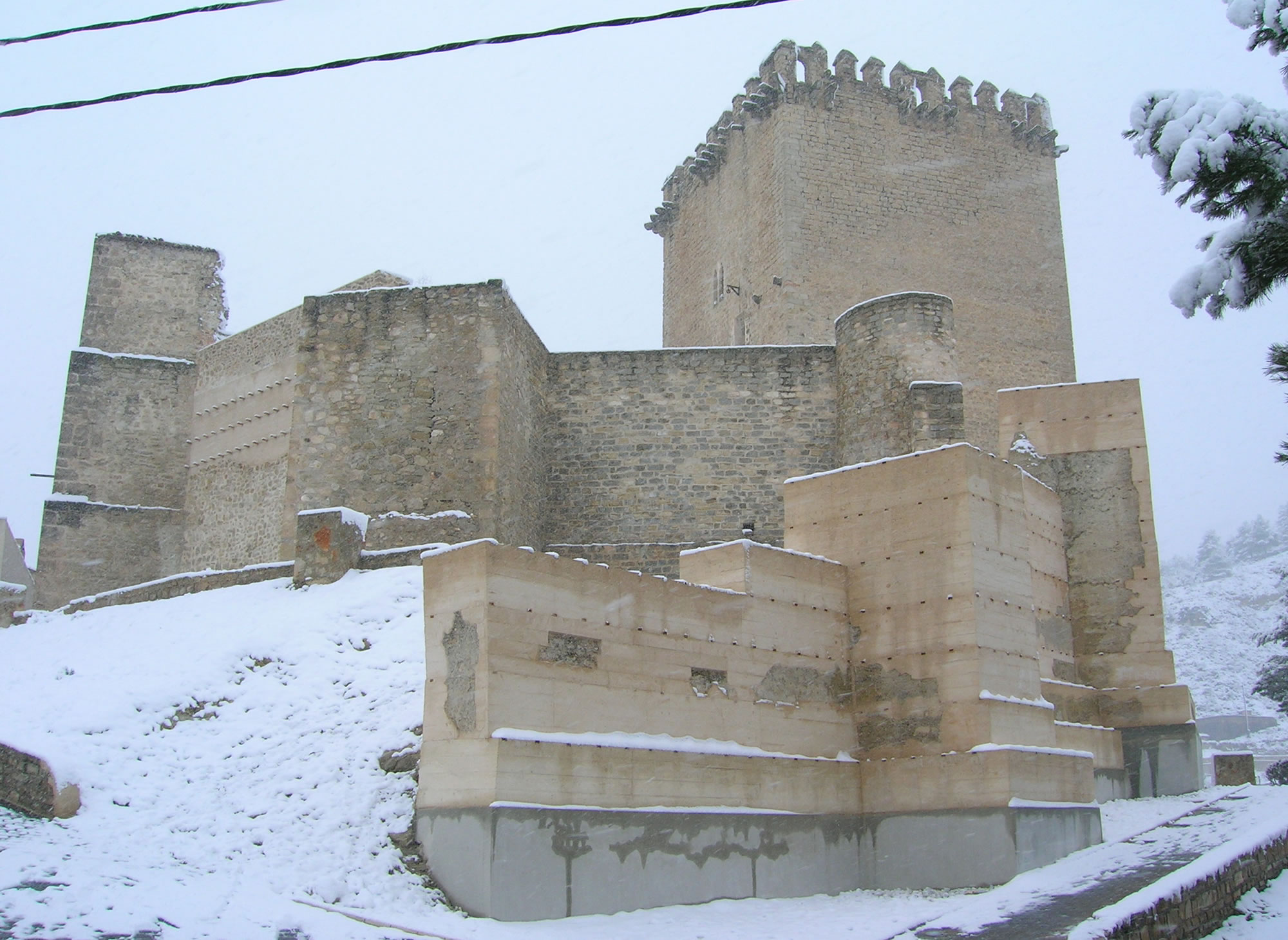 Moratalla, Murcia, Spain. Castle-castillo. Own work, given to PD.